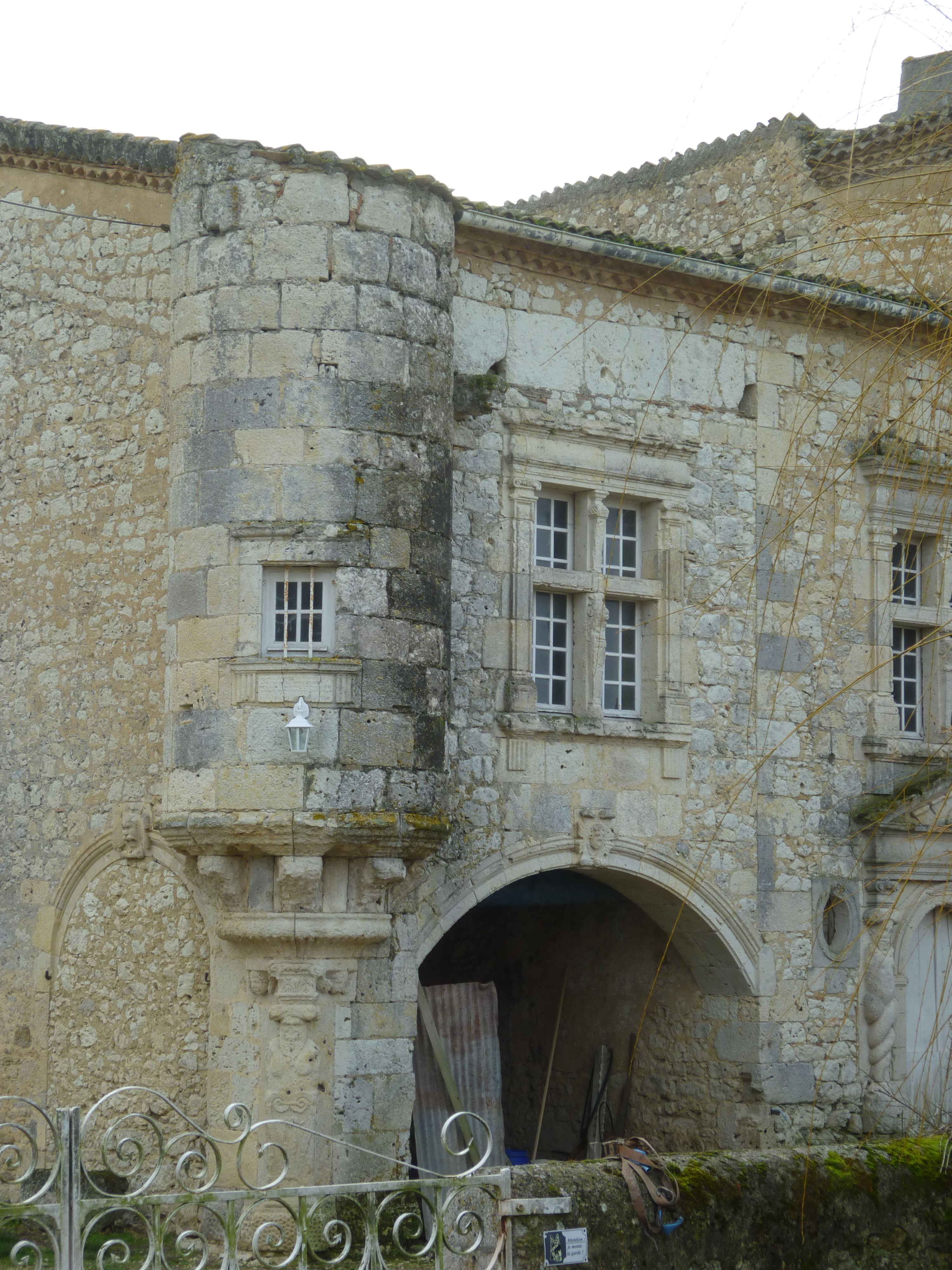 Turret of the castle of Madirac, historical monument in La Romieu (Gers, France)